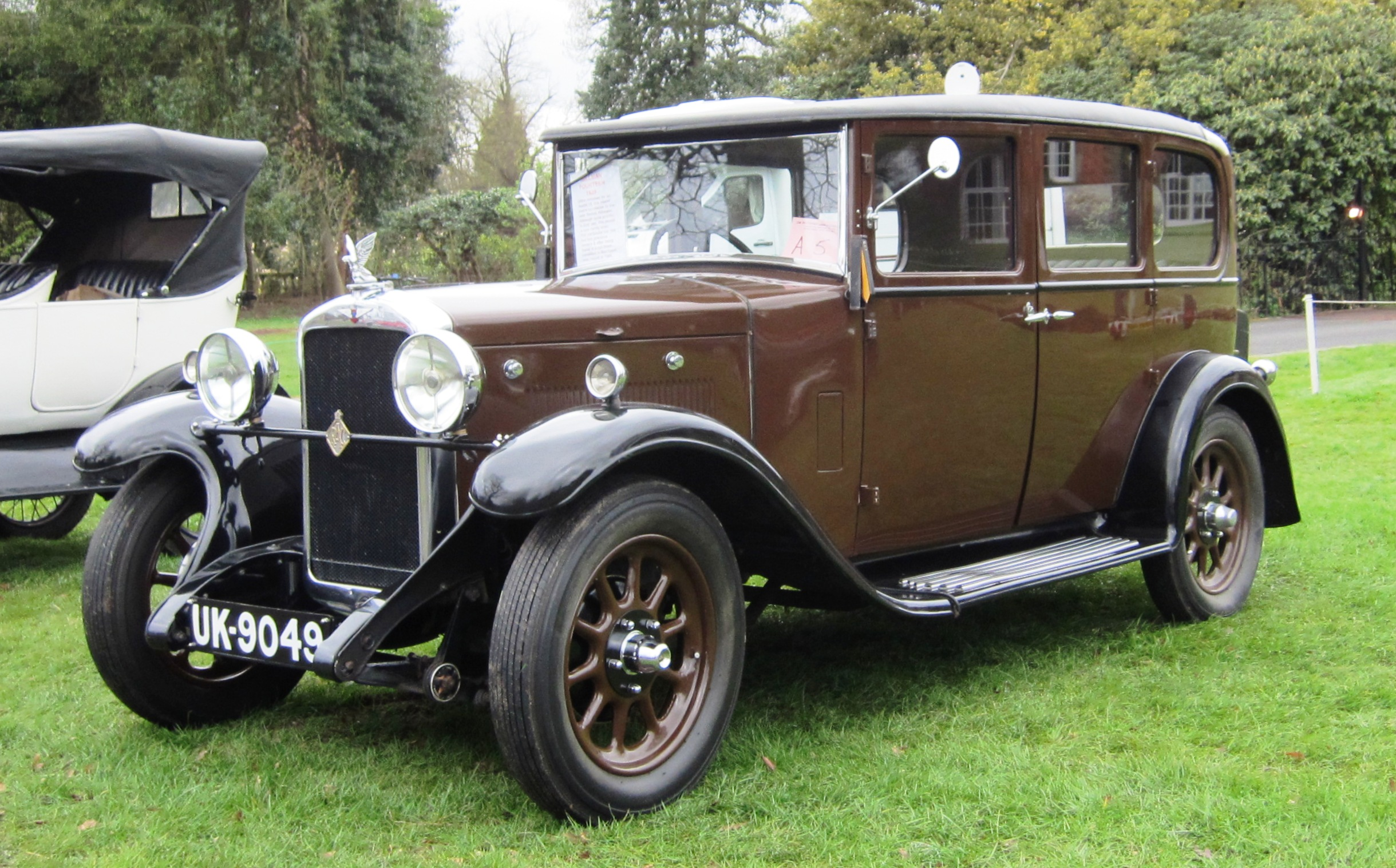 Hillman 14 6-light coachbuilt saloon (DVLA) first registered 30 June 1930 at Weston Park Staffordshire